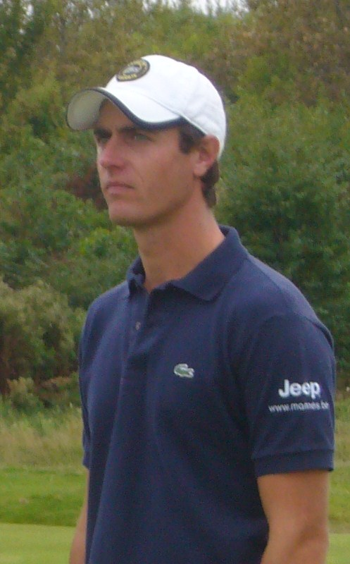 Belgian golfer Nicolas Colsaerts, winner of the Dutch Challenge Open 2009